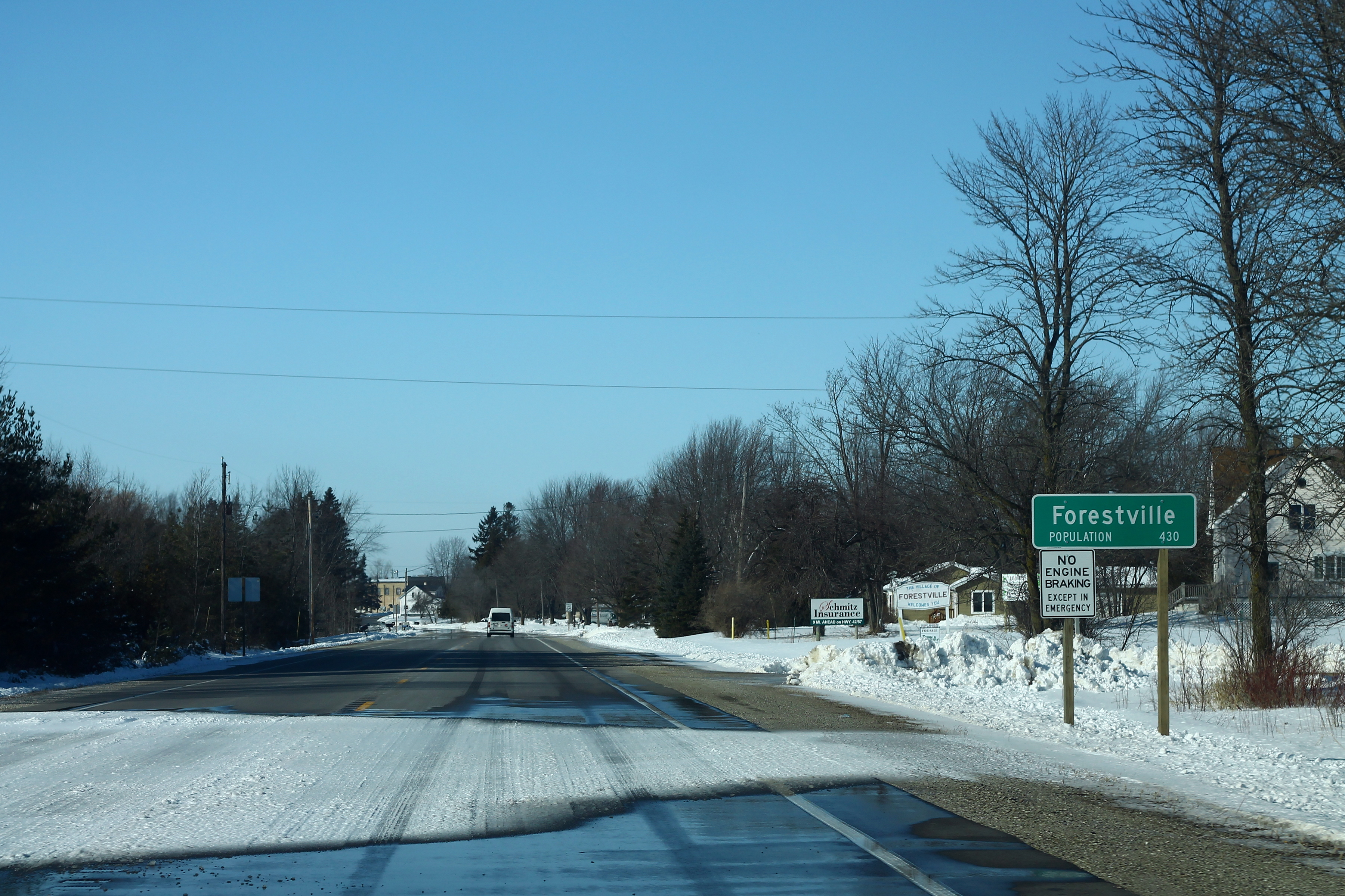 Northward view on Wisconsin Highway 42 at the limits of the Village of Forestville on February 21, 2020.